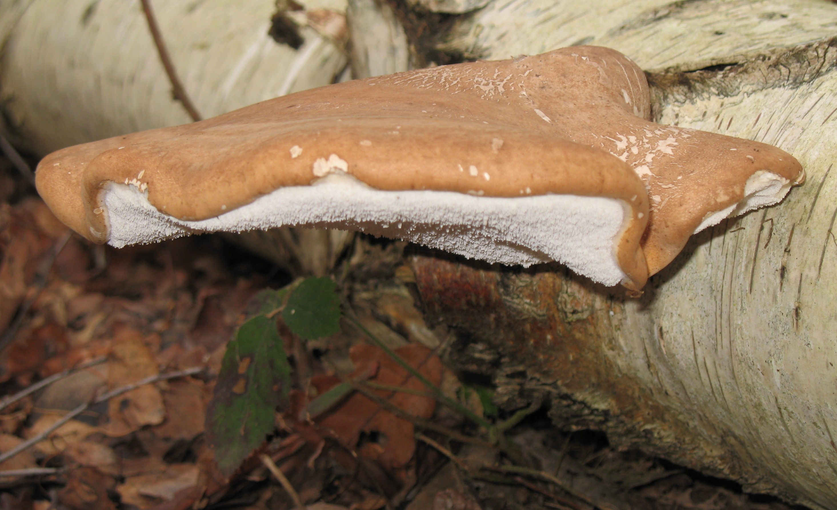 Birch Bracket - Piptoporus betulinus